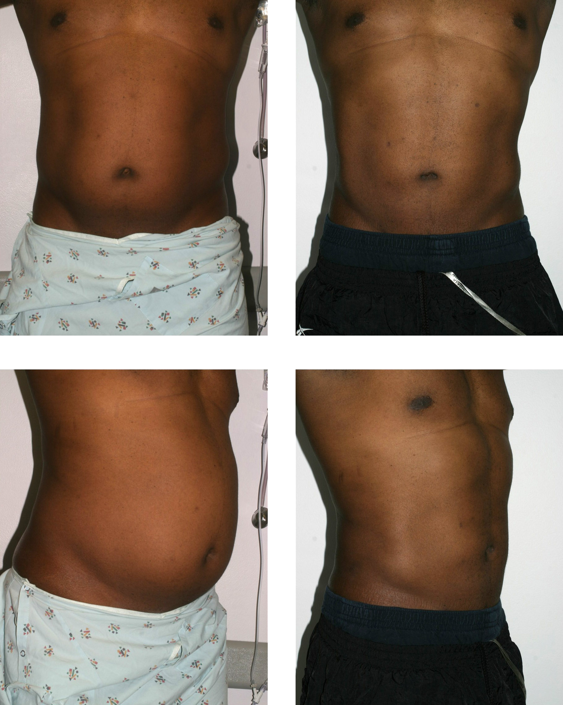 Suction-assisted lipectomy and ultrasonic-assisted lipoplasty of abdomen and flanks